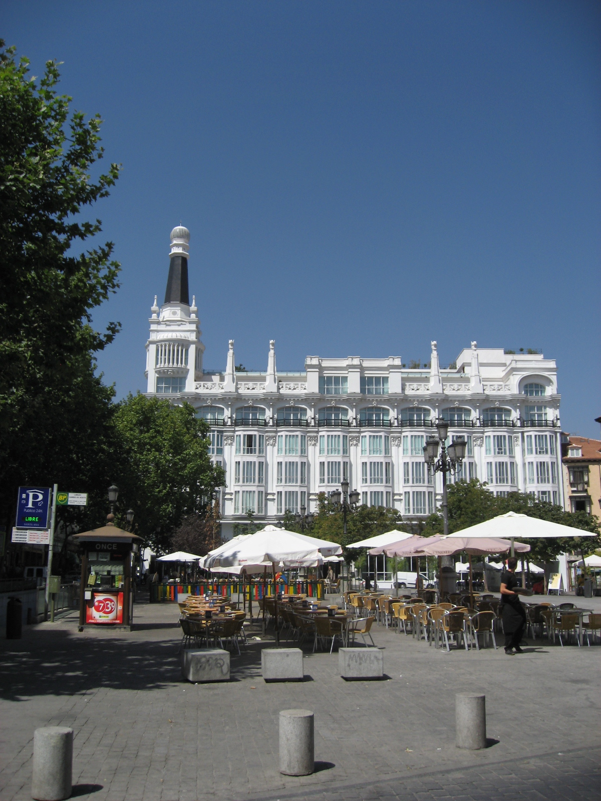 Plaza de Santa Ana, Madrid